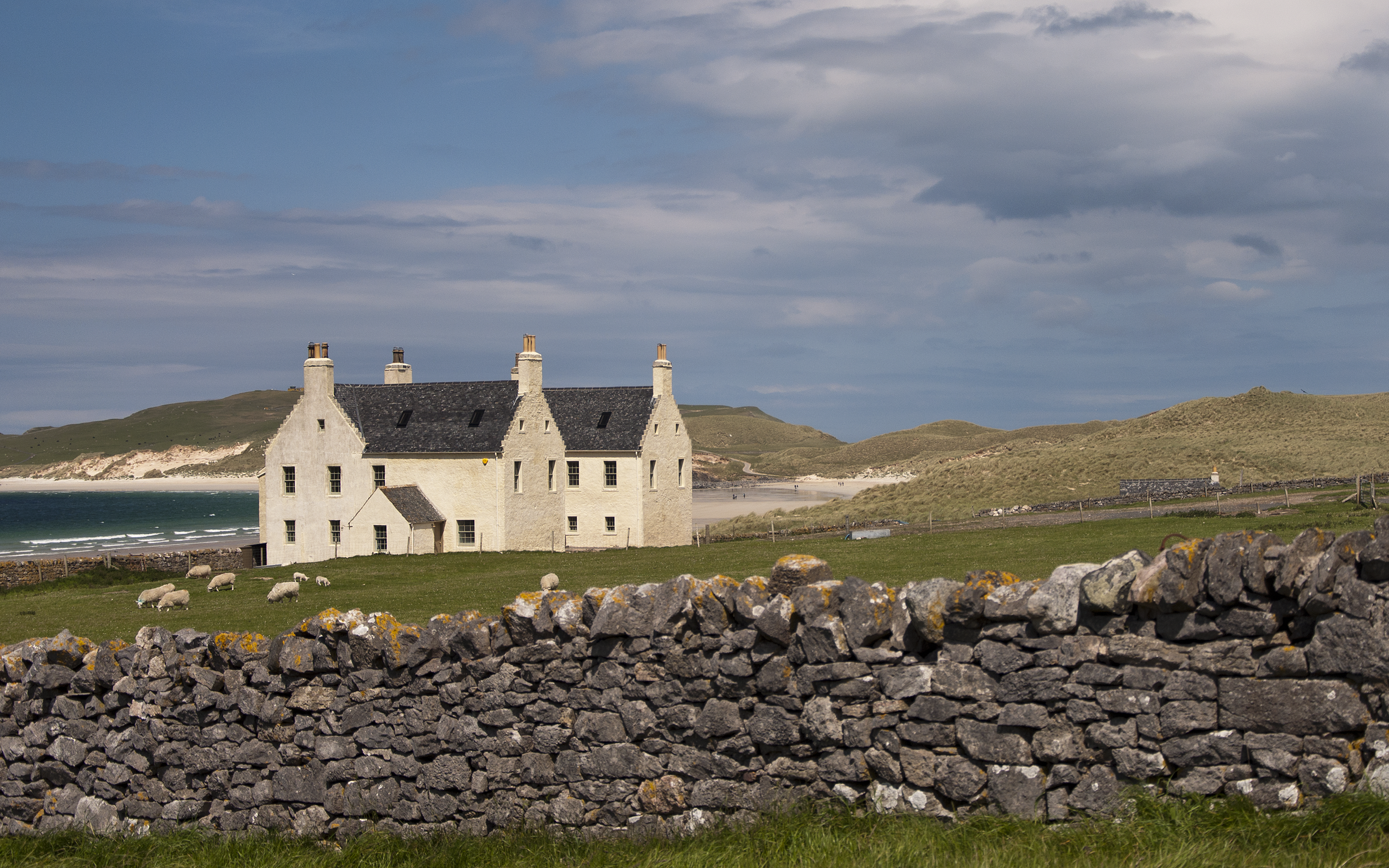 Balnakeil House, Balnakeil, Scotland